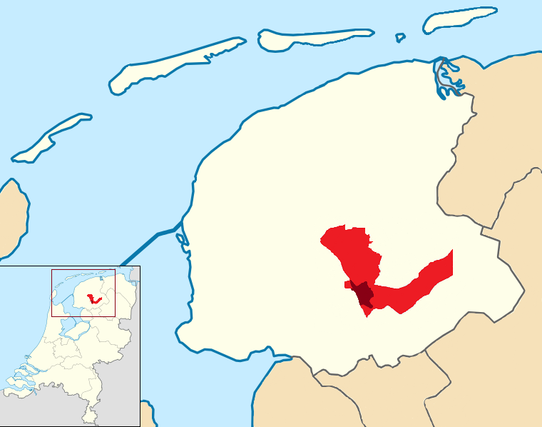 Heerenveen, city (dark red) and municipality (red) in Friesland, Netherlands, 2018